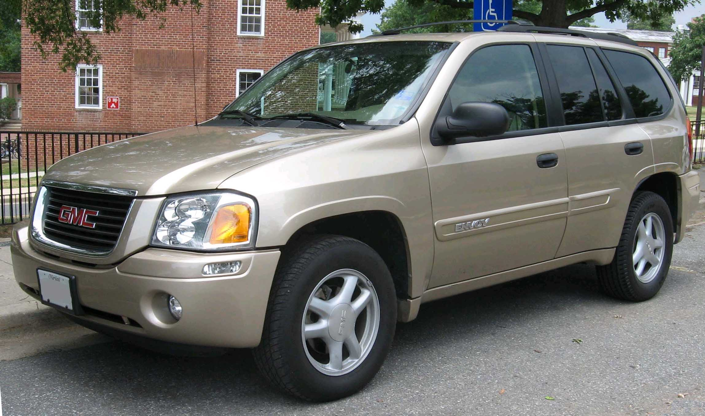 2002–2007 GMC Envoy photographed in USA.